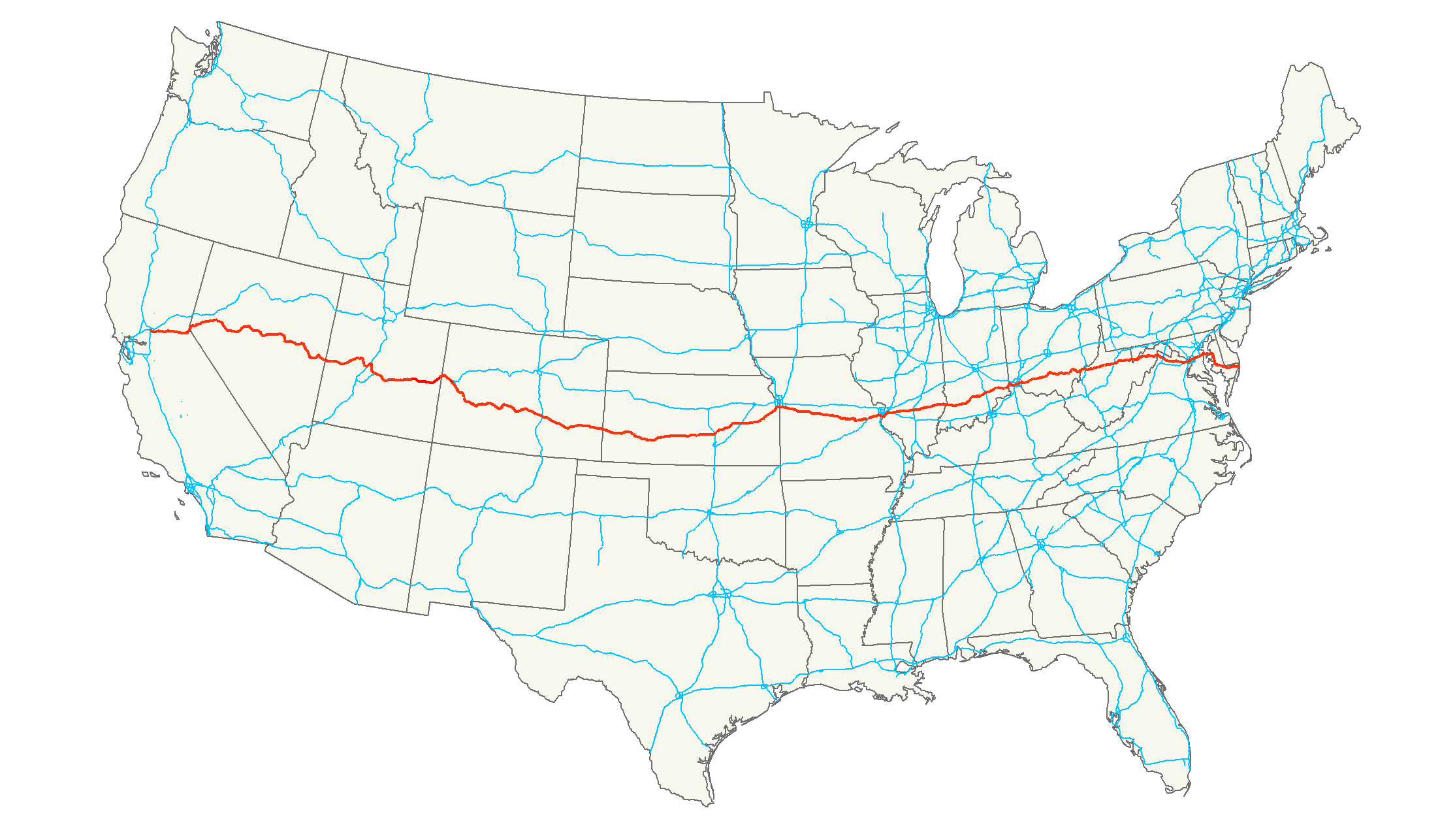 Map of U.S. Route 50